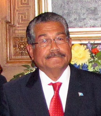 Palau President Johnson Toribiong at a meeting in Washington D.C. (cropped from original)